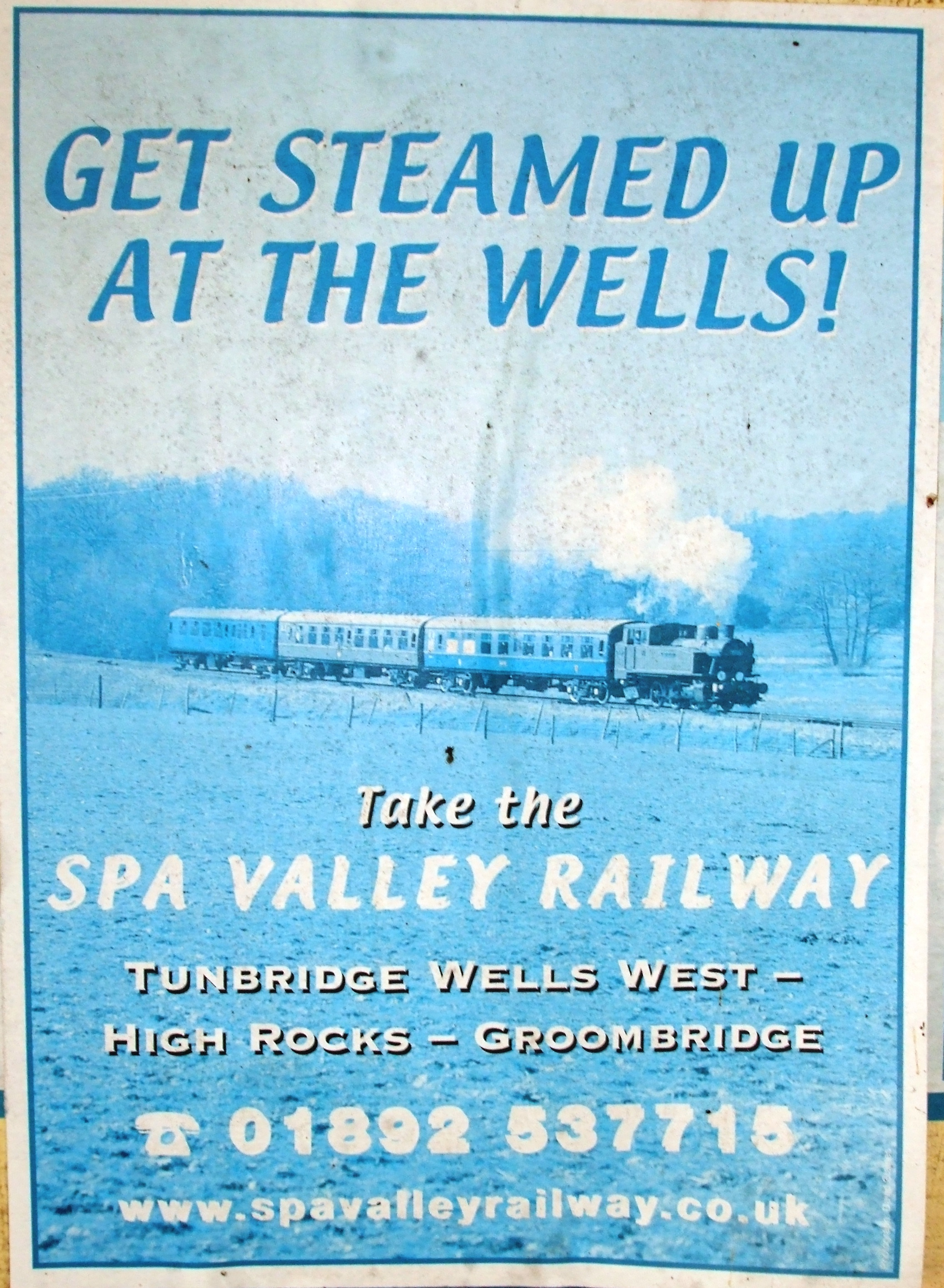 Eridge Railway Station platforms, East Sussex